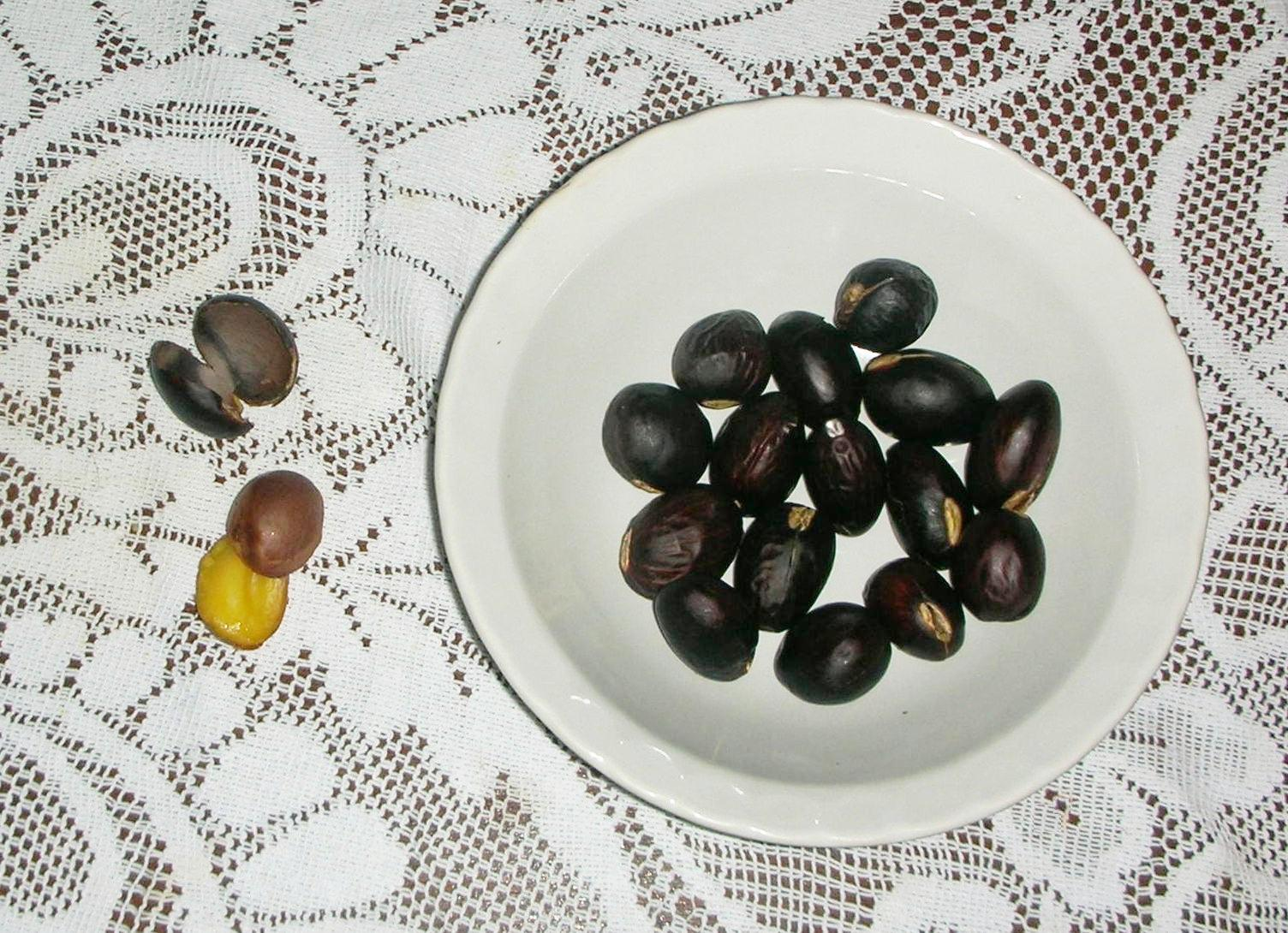 Boiled Sterculia monosperma (Chinese: 蘋婆; Thai: เกาลัดไทย), also known as Chinese Chestnut, Thai Chestnut and Seven Sisters' Fruit